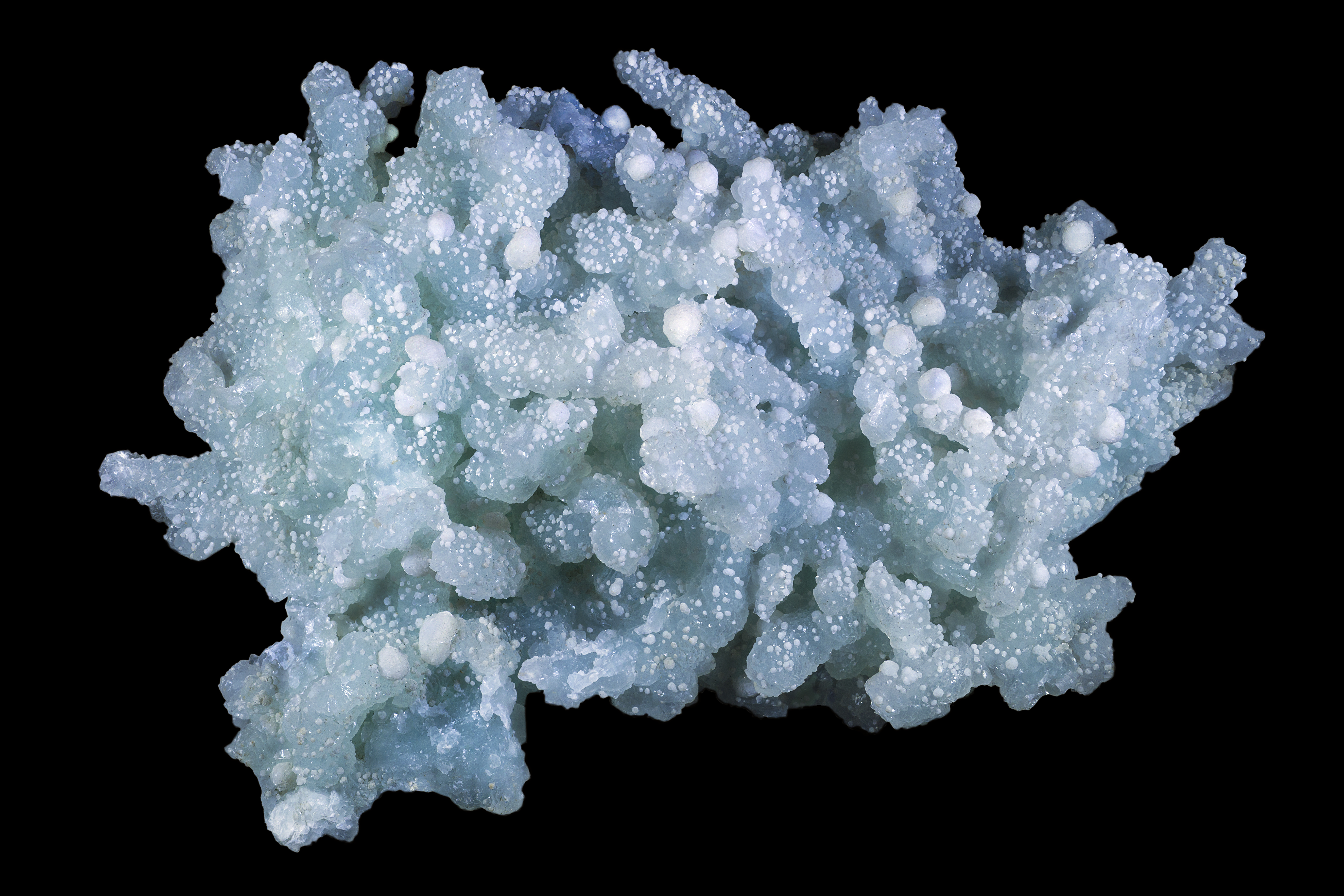 Prehnite Pseudomorph of laumontite and gyrolite Locality: Malad, Ward 38, Mumbai (Bombay), Mumbai District (Bombay District), Maharashtra, India size : 21x15cm)